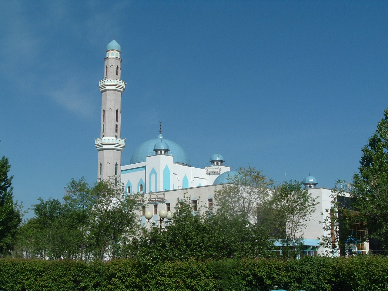 Nurdaulet Mosque and shopping center. Aktobe.